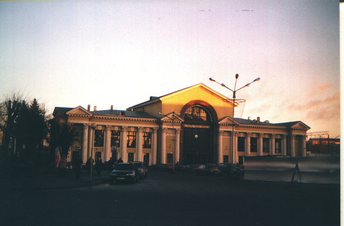 Train station in Vyborg